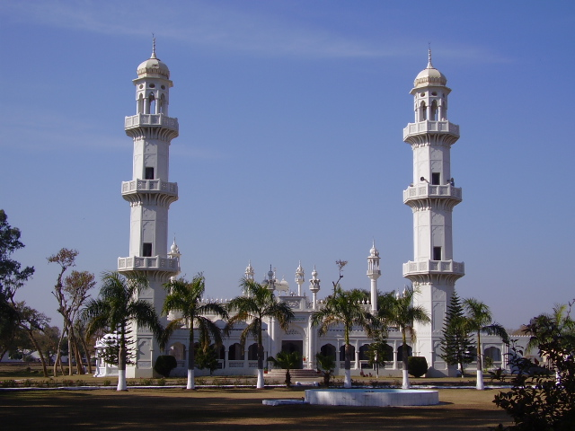 Mosque in Jhelum Cantonment Pakistan built in early 50s.